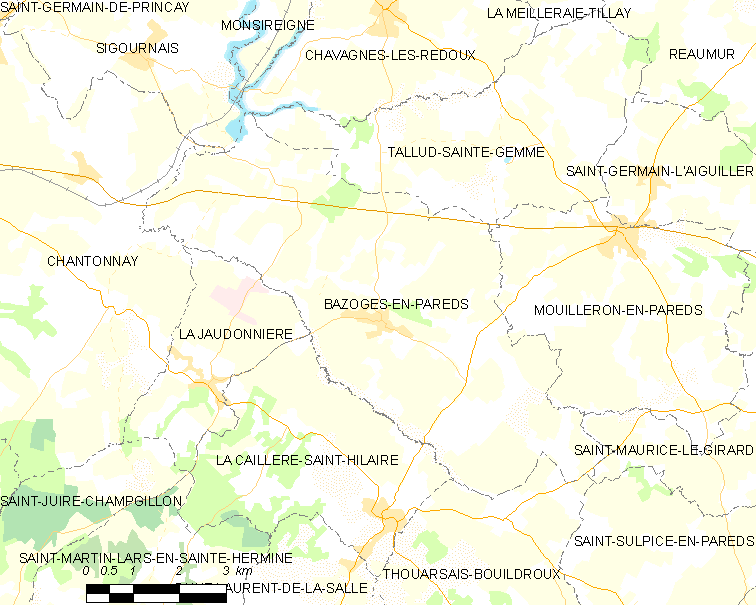 Map of French municipality Bazoges-en-Pareds